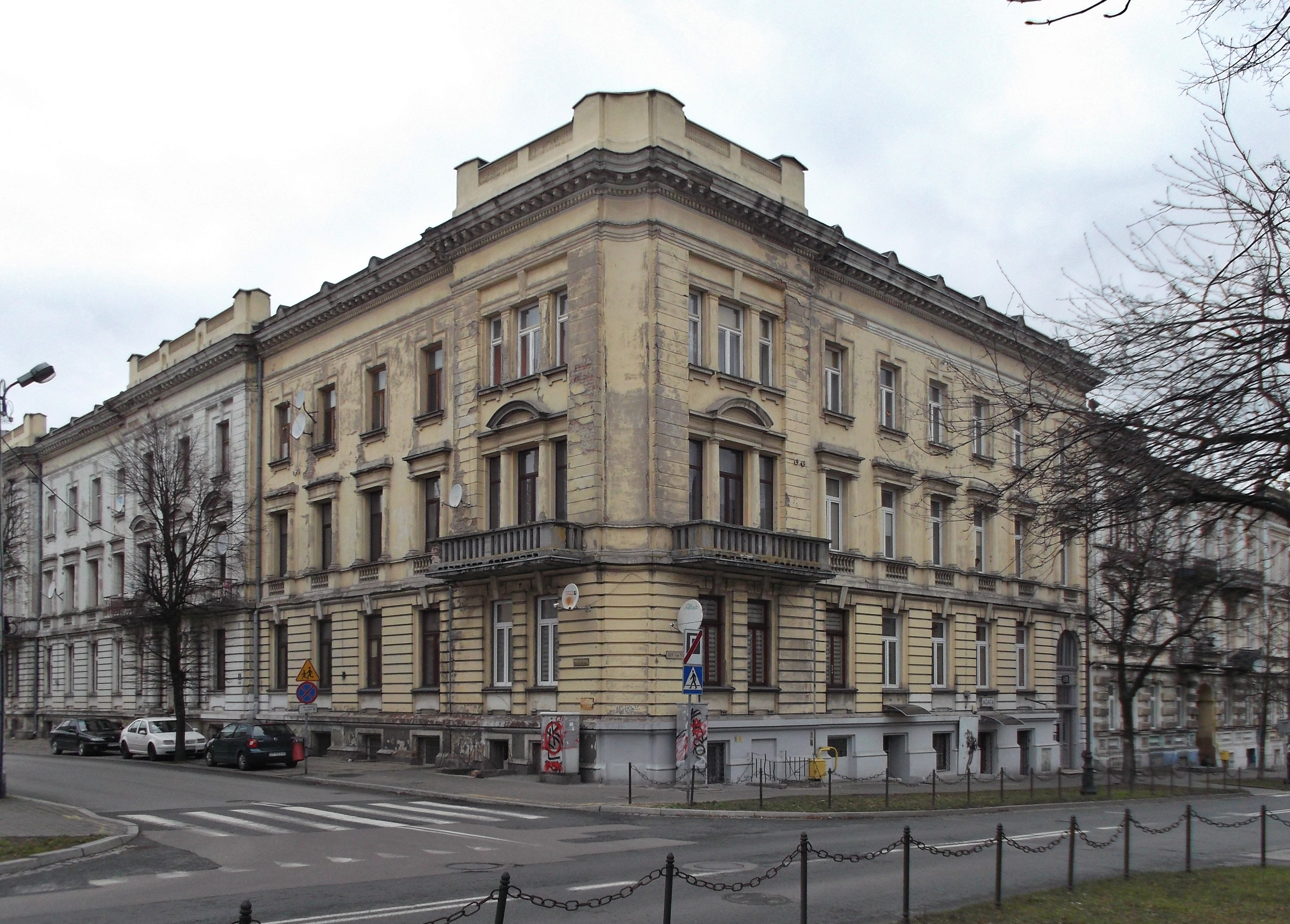 House, 21 3 Maja Street in Piotrków Trybunalski in Poland.